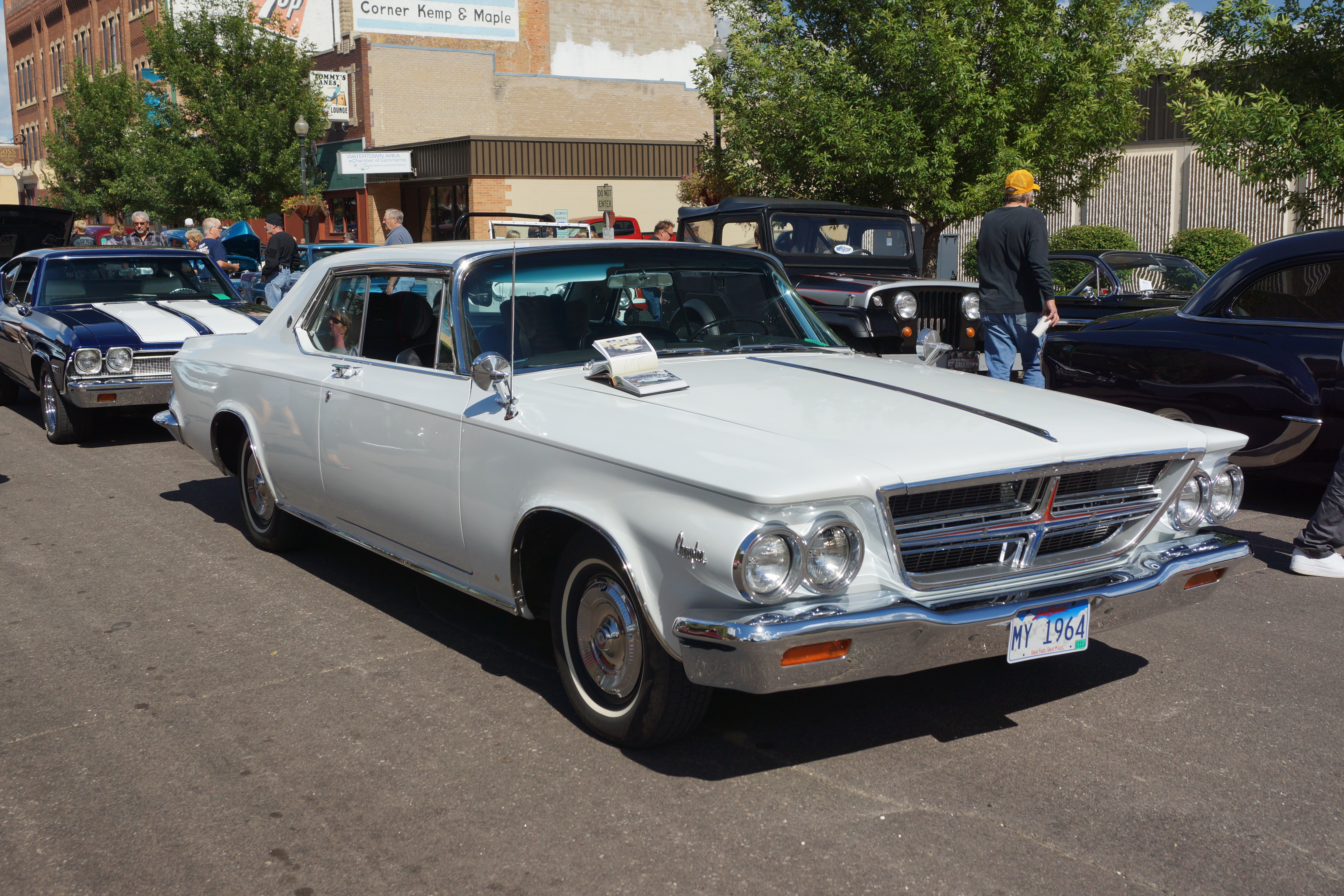 37th ANNIVERSARY VINTIQUES ROD RUN & KAMP OUT Show & Shine Uptown Watertown Watertown, South Dakota September 2016 Click here for more car pictures at my Flickr site.